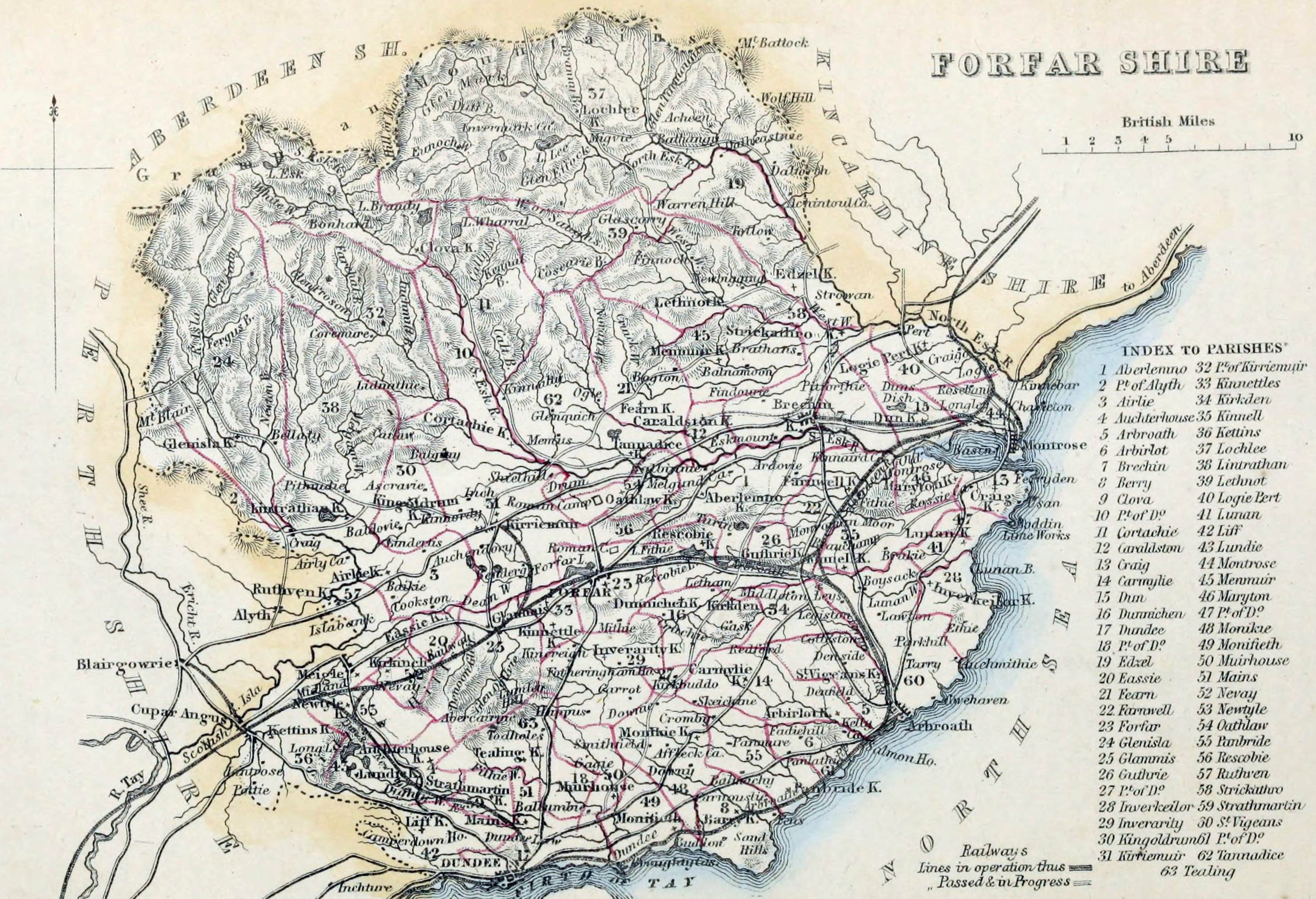 ANGUSSHIRE (Forfarshire) Civil Parish map. The Imperial gazetteer of Scotland. Vol. I. by Rev. John Marius Wilson.